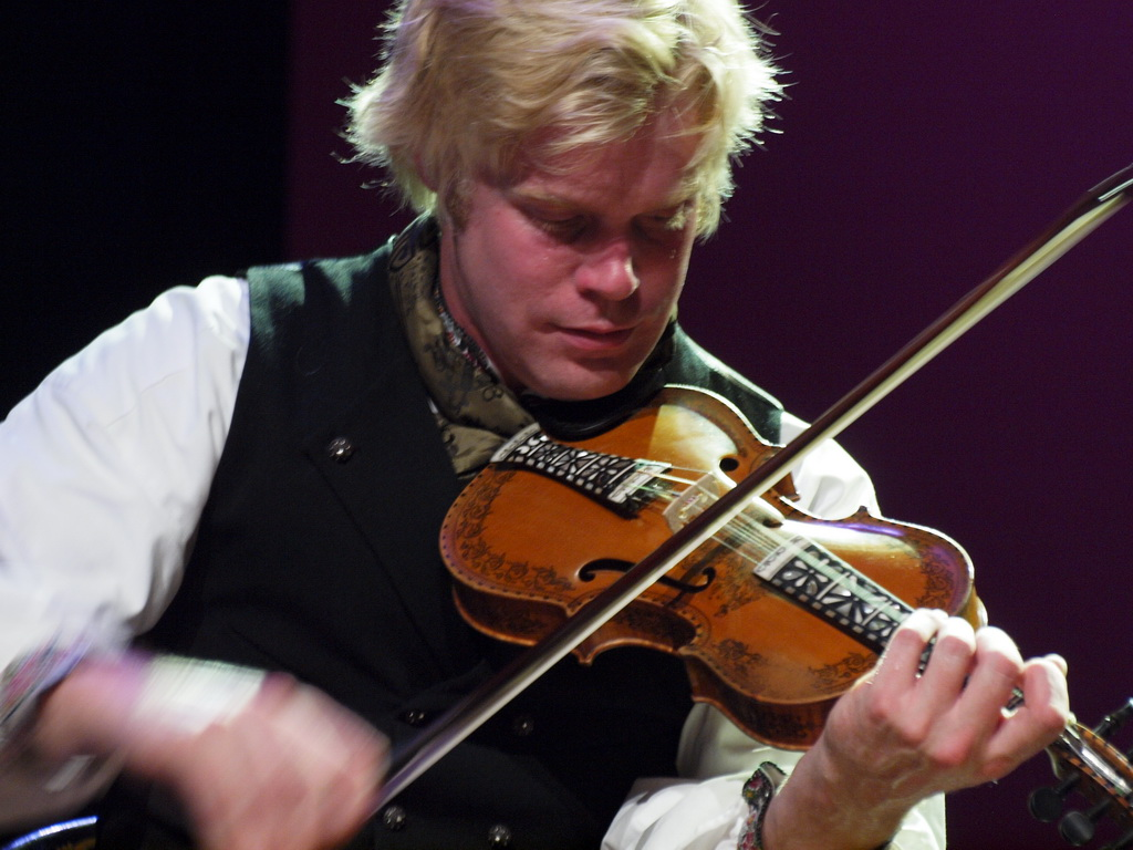 Torgeir Straand, hardangefiddle player performing at the National folk music contest in Seljord, Telemark county July 2011.